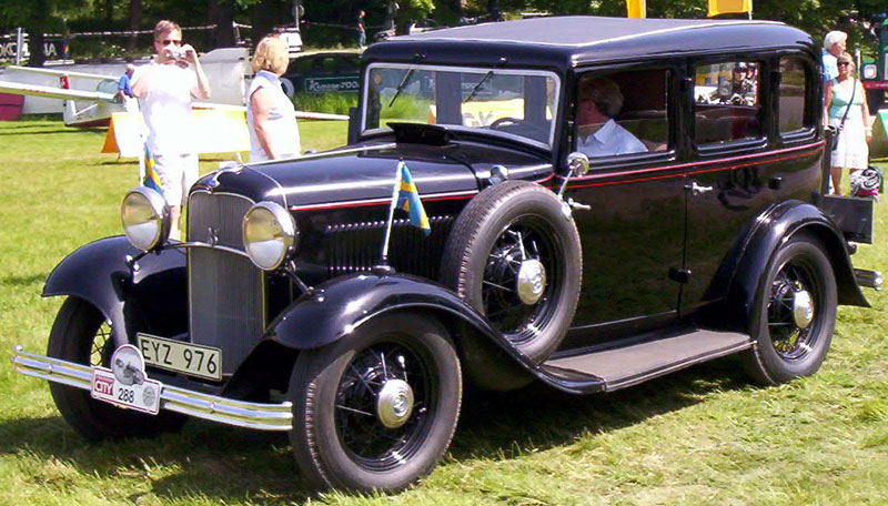 Ford Model 18 160 De Luxe Fordor Sedan 1932